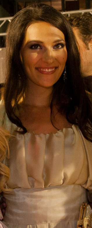 Fourlicious - Jameerah : International girls band consisting of (from left to right) Jasmine Sendar, Tanja Dexters, Nelly Marie Bojahr, Elisa Guarraci